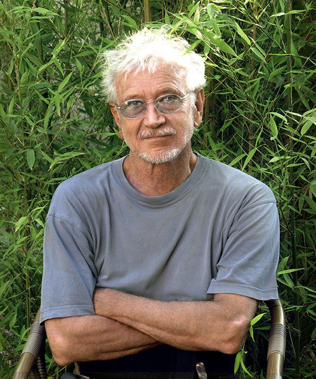 Pierre Berdoy 2008, photograph Manuel Berdoy